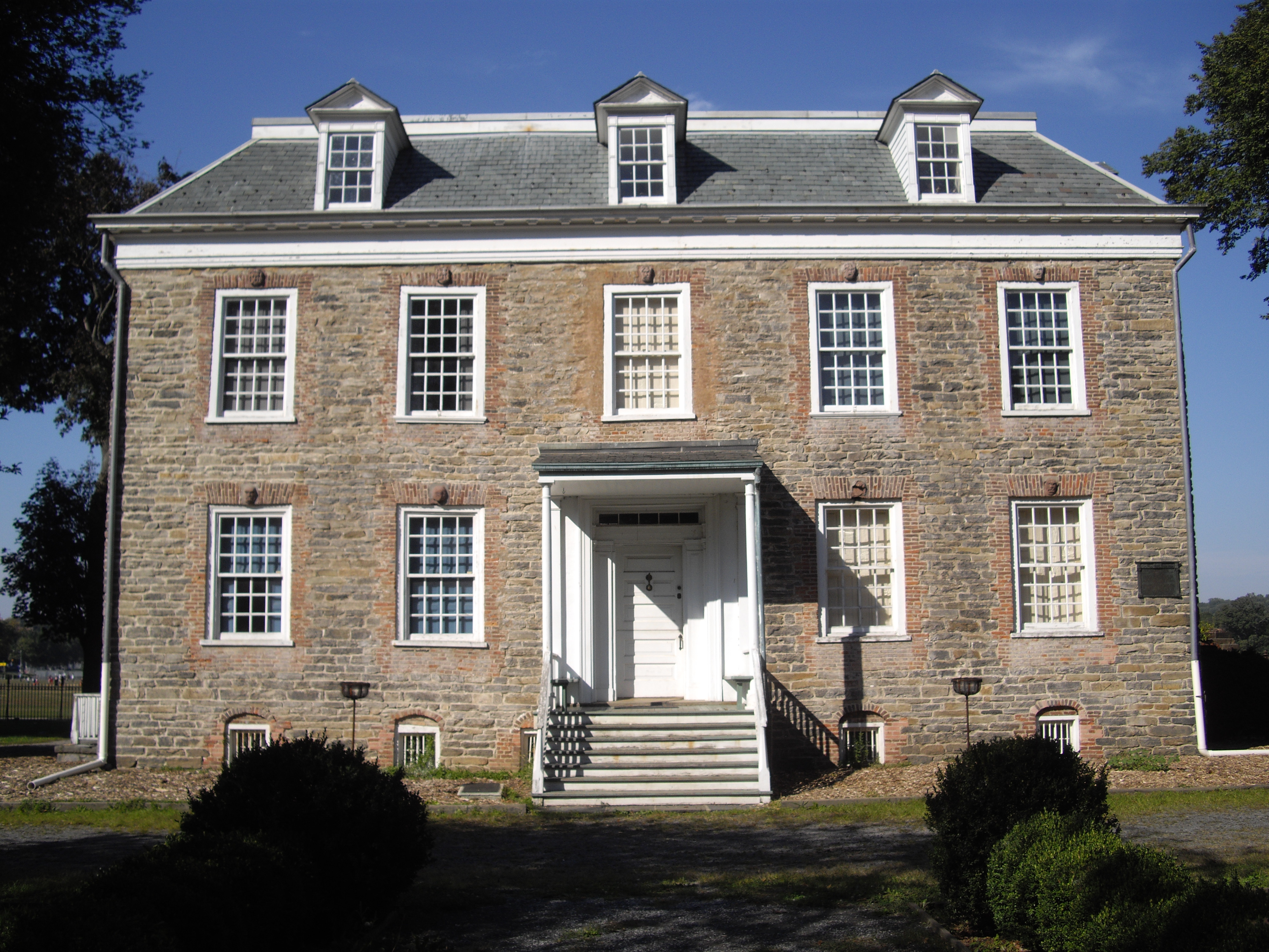 Van Cortland House in the Bronx